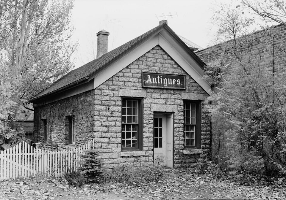 Justice Cornelius Ramsey House, 252 West Seventh Street, Saint Paul, Ramsey County, MN